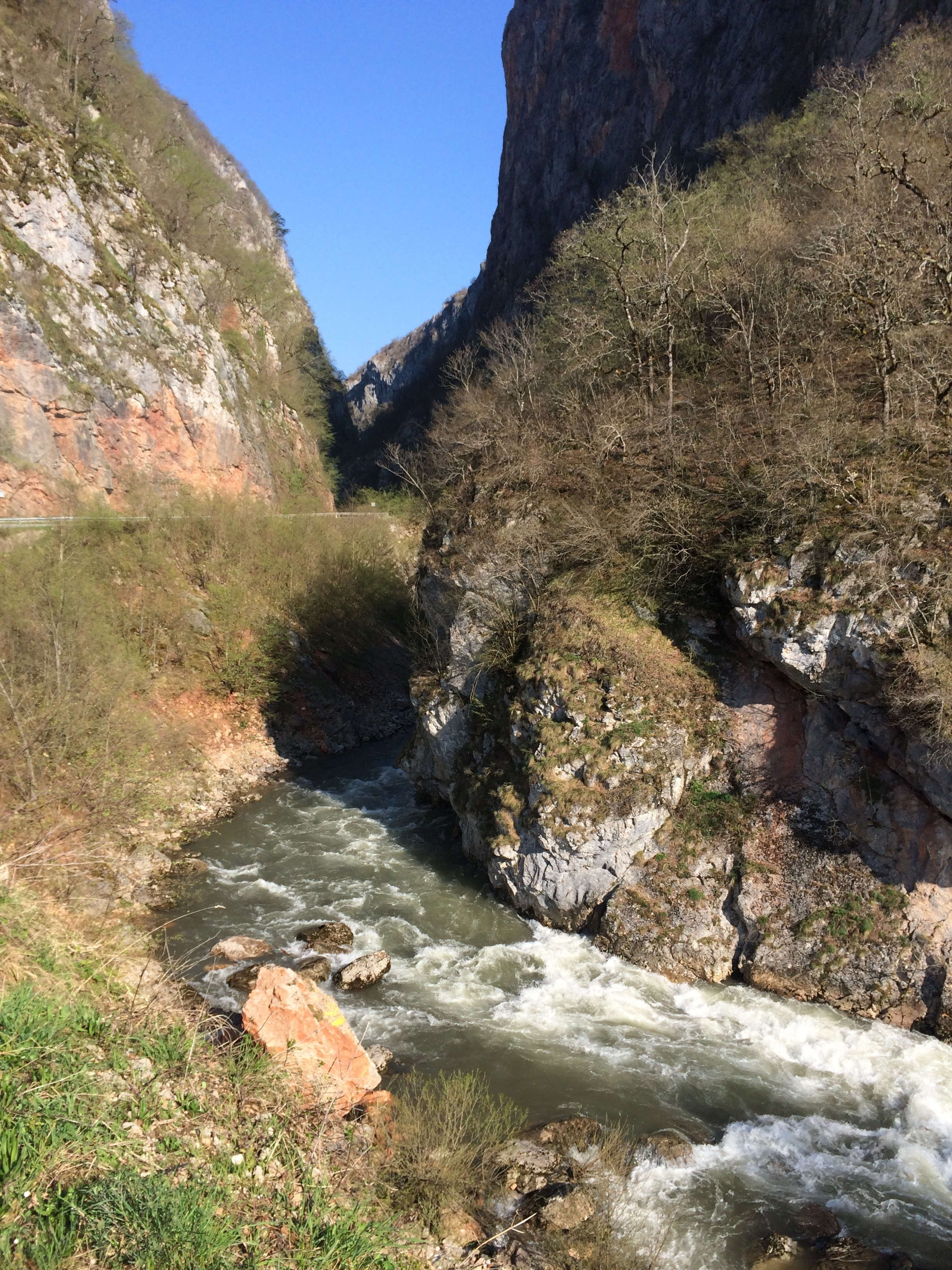 Image from part of the village of Stovic in northwestern parts of the municipality of Foča, Republika Srpska, in Bosnia-Hercegovina.